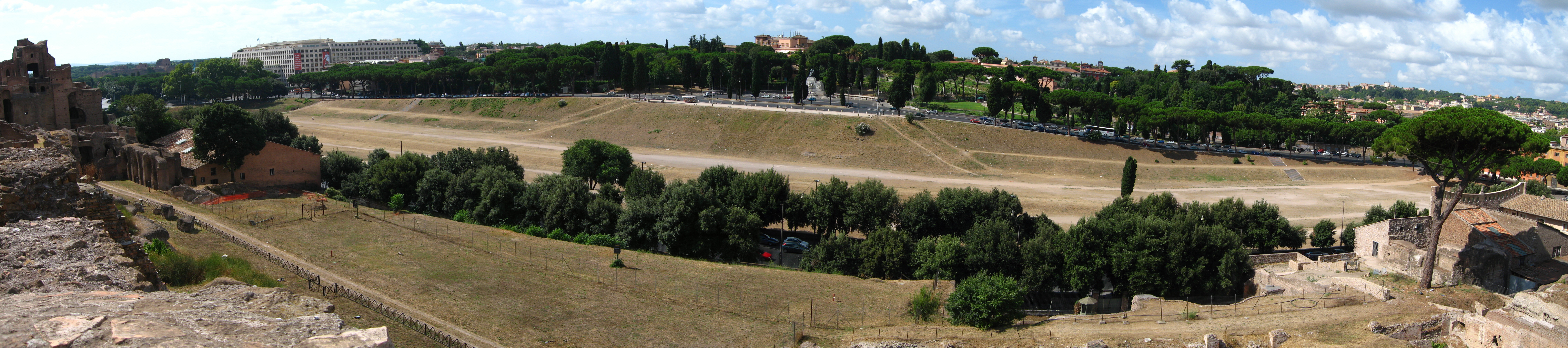 Circus Maximus, viewed from the Palatine Hill, RomeTürkçe: Circus Maximus'un Palatine tepesinden görünüşü